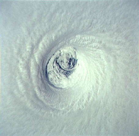 The eye of 1994's Hurricane Emilia on July 19, 1994.